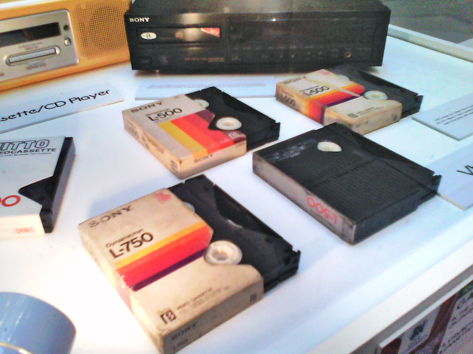 Betamax cassettes on display at the 80s Museum at SM City BF Parañaque. Taken on my Lenovo smartphone.